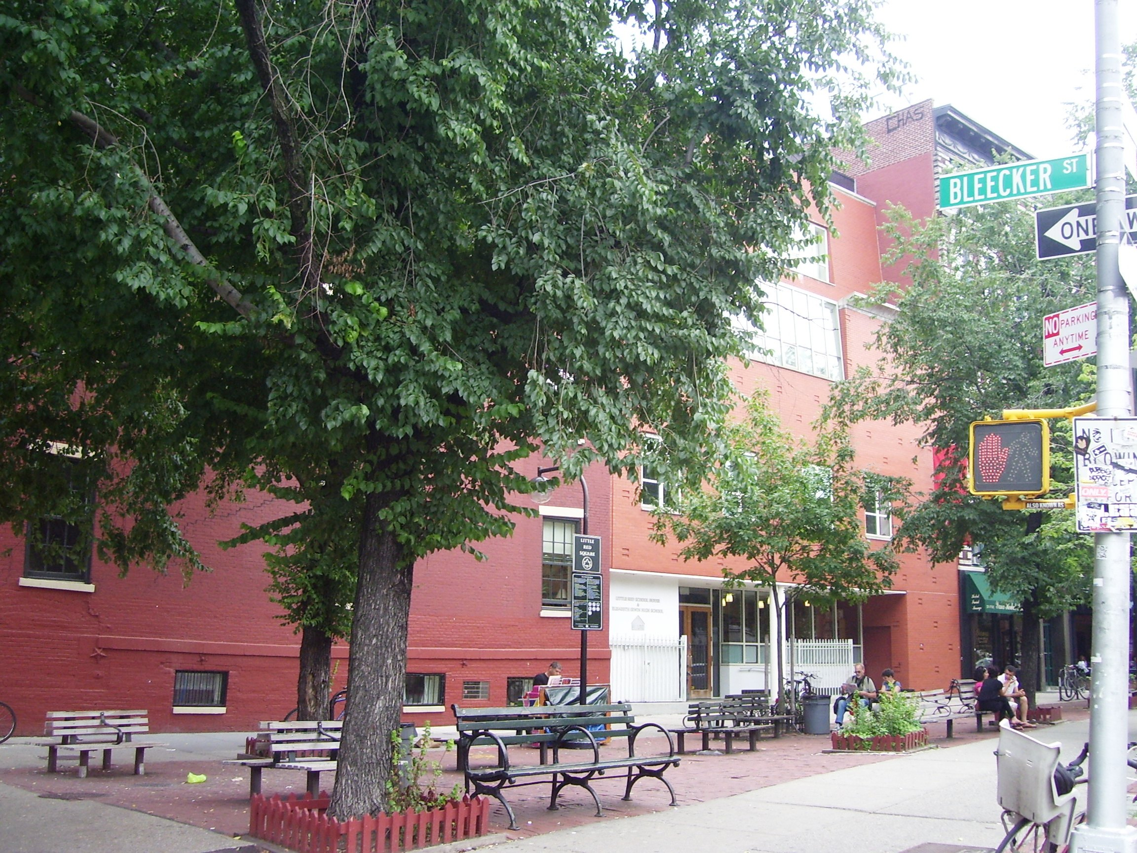 Little Red Square is a vest-pocket park of the New York City Parks Department, located on the corner on Sixth Avenue and Bleecker Street. Its name derives from the Little Red School House (LREI), which is located just off the park (its buildings can be seen in the background), and is a play on "Red Square" in Moscow.